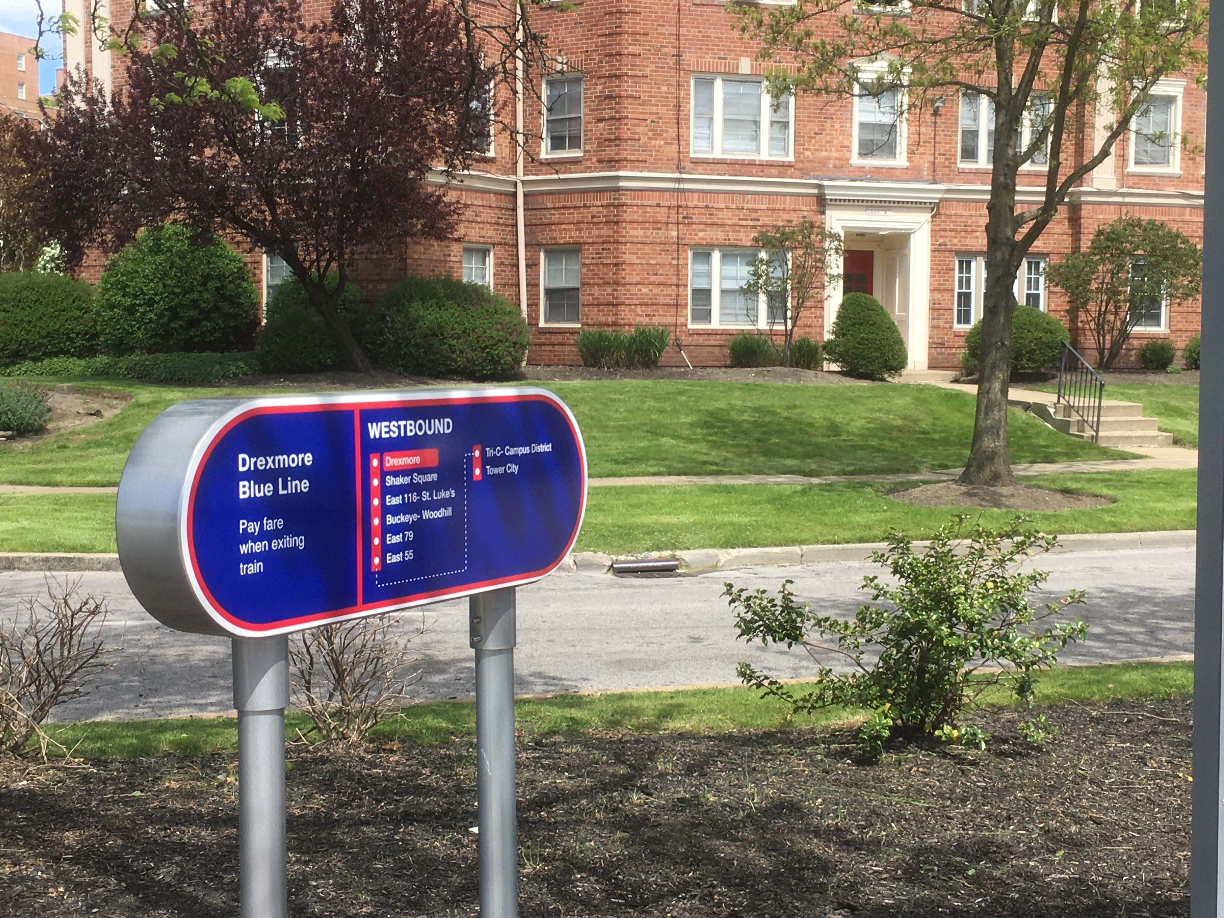 Drexmore 2020 sign